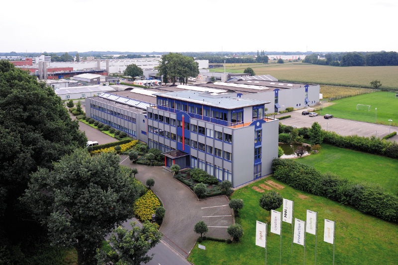 POOLgroup, Emsdetten